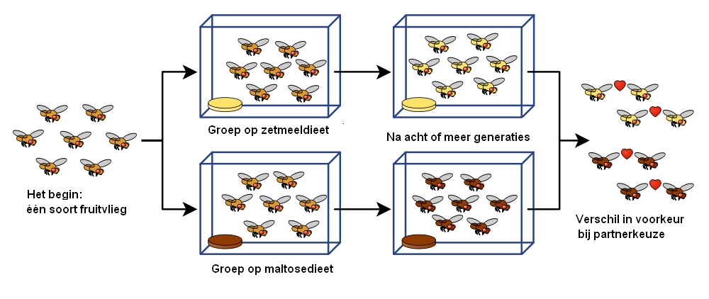 Drosophila speciation experiment